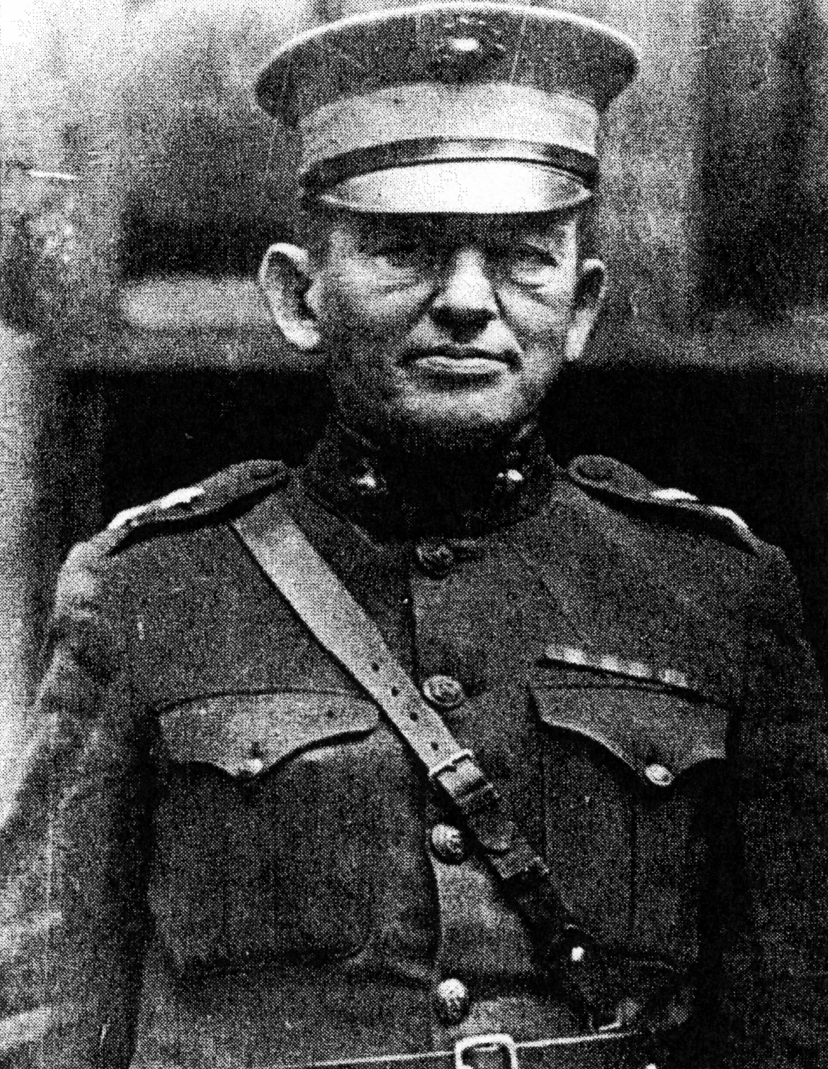 Major General John A. Lejeune, USMC, in France during World War I, where he commanded the 2nd Division.